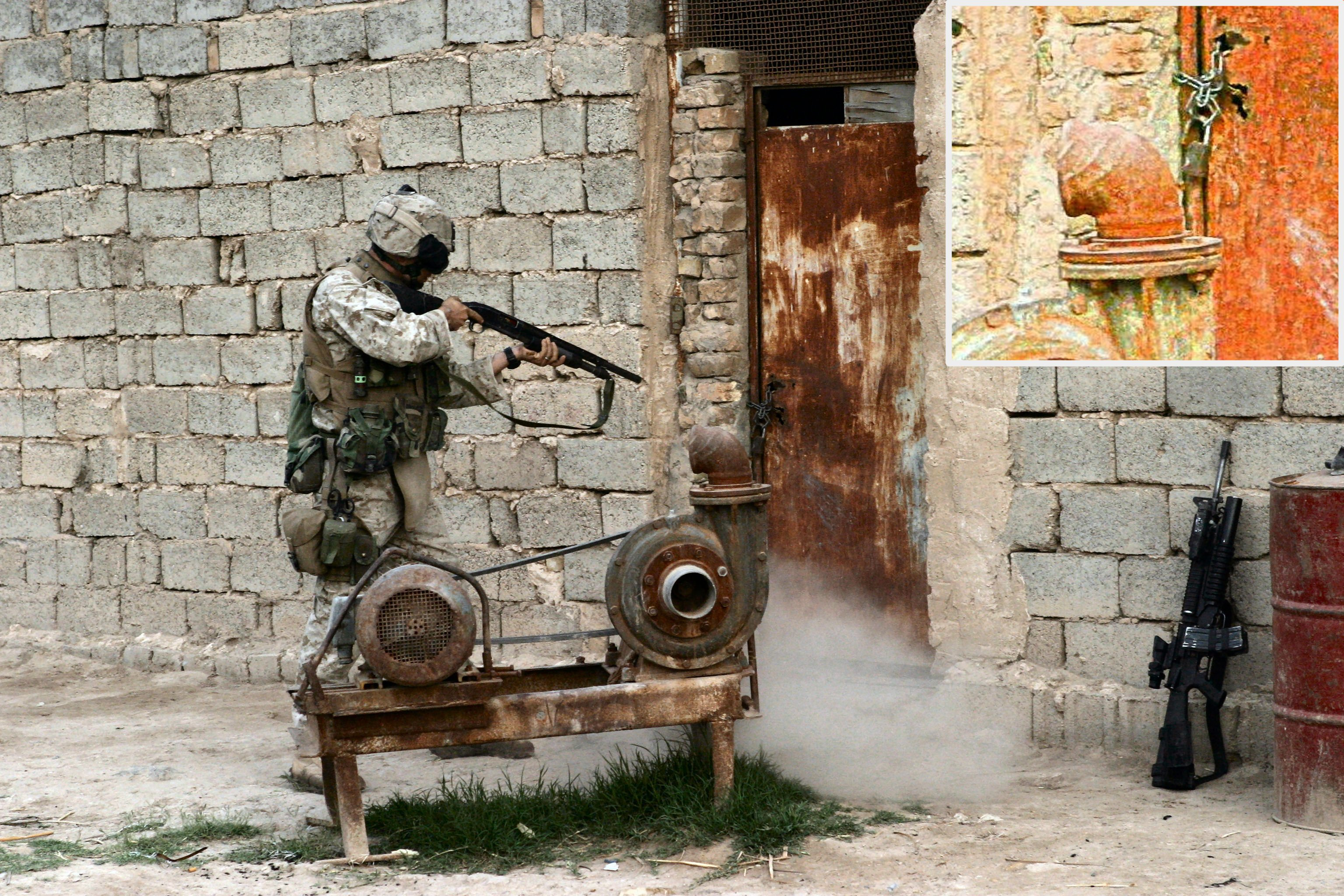 From KHARMA, Iraq (April 30, 2005) – Sgt. Brian Criss, with 3rd Battalion, Eighth Marine Regiment, India Company, 4th Platoon, fires his shotgun onto a door lock for a room to allow his fellow Marines to enter and secure the room during a cordon and knock within the neighborhood of Kharma, Iraq, April 19, 2005. U.S. Marine Corps photo by Lance Cpl. Matthew Hutchison. Additional information: Shotgun appears to be a Mossberg 590. It looks like one round has already been fired, you can see the smearing from an apparent buckshot load on the lock and door. Also note the shotgun's breech is not yet closed. 4/23/08--Added an inset showing an enlarged view of the area around the lock, showing the muzzle, the broken lock, and the smearing of lead on the lock and door from the buckshot. The image was processed with a spatially adaptive brightness/contrast enhancing algorithm.